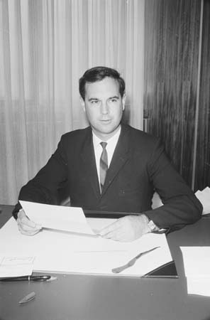 A black and white portrait of Steele Hall, Premier of South Australia, taken in 1968